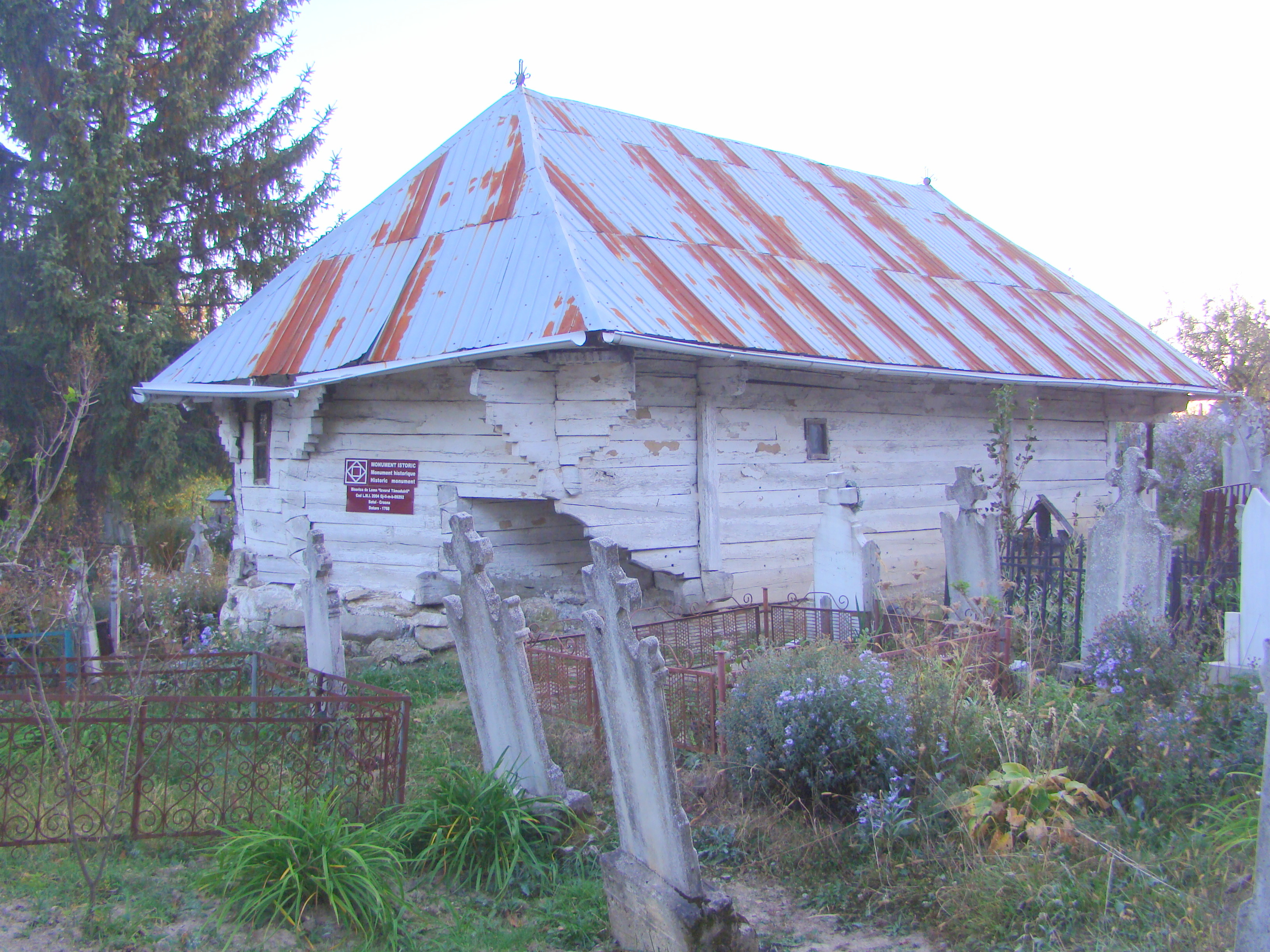 Wooden church in Crasna-Ungureni, Gorj county, Romania